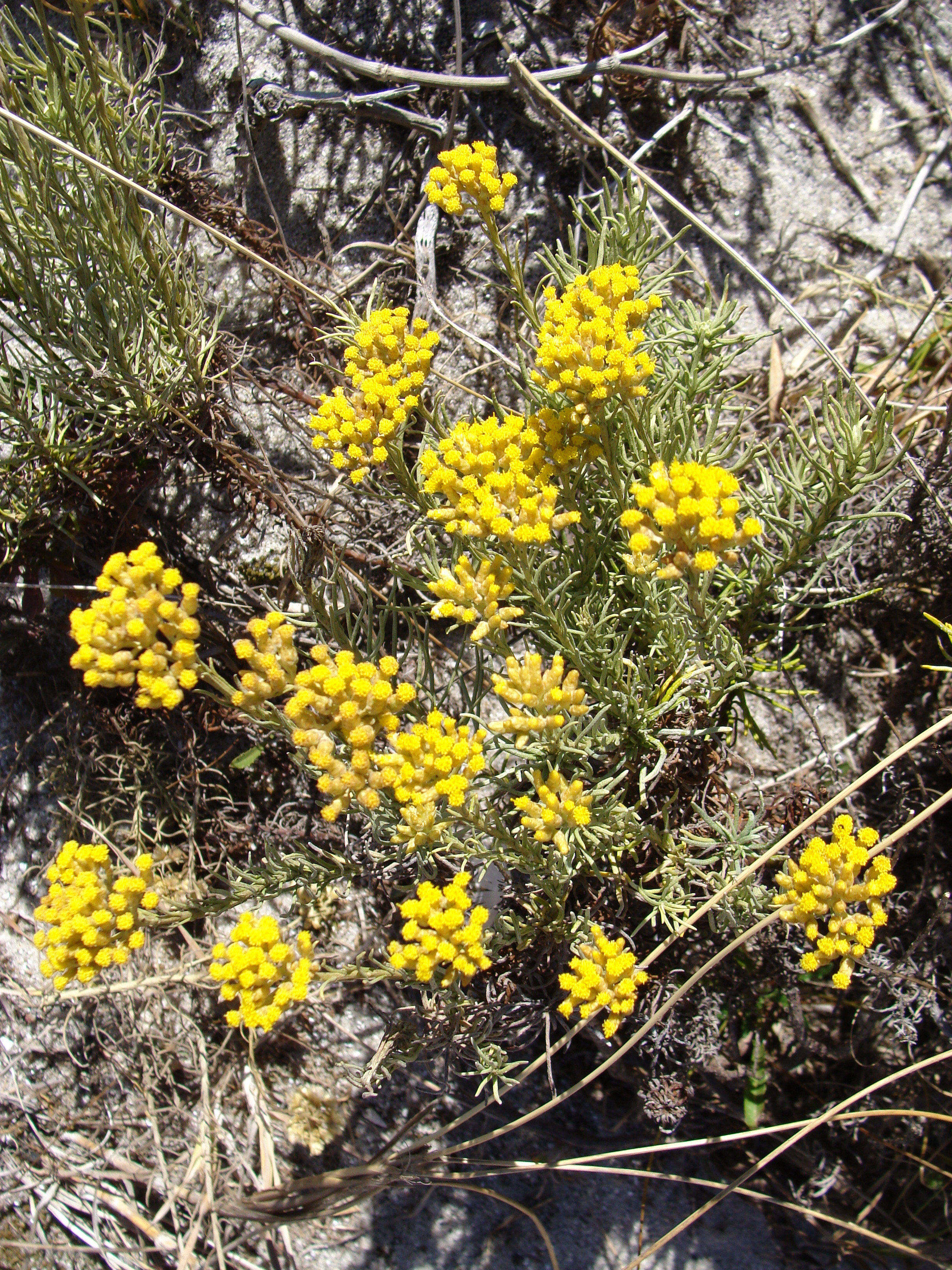 Helichrysum italicum spp serotinum (Curry plant) in Cíes Islands, Pontevedra, Galicia, Spain.